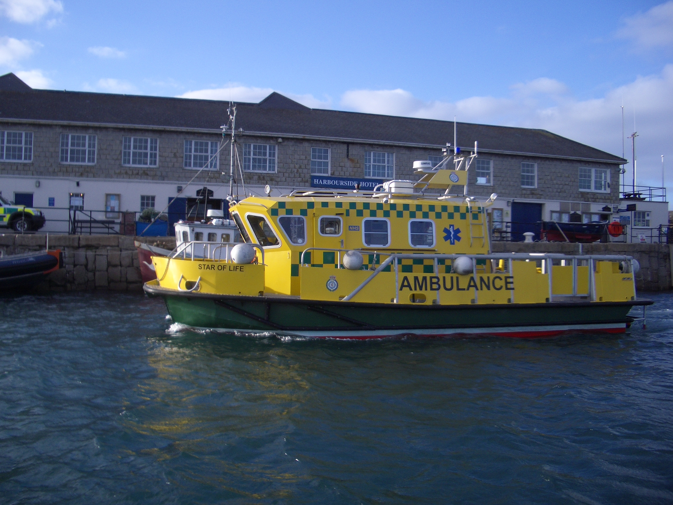 In St. Mary's Harbour, Isles of Scilly